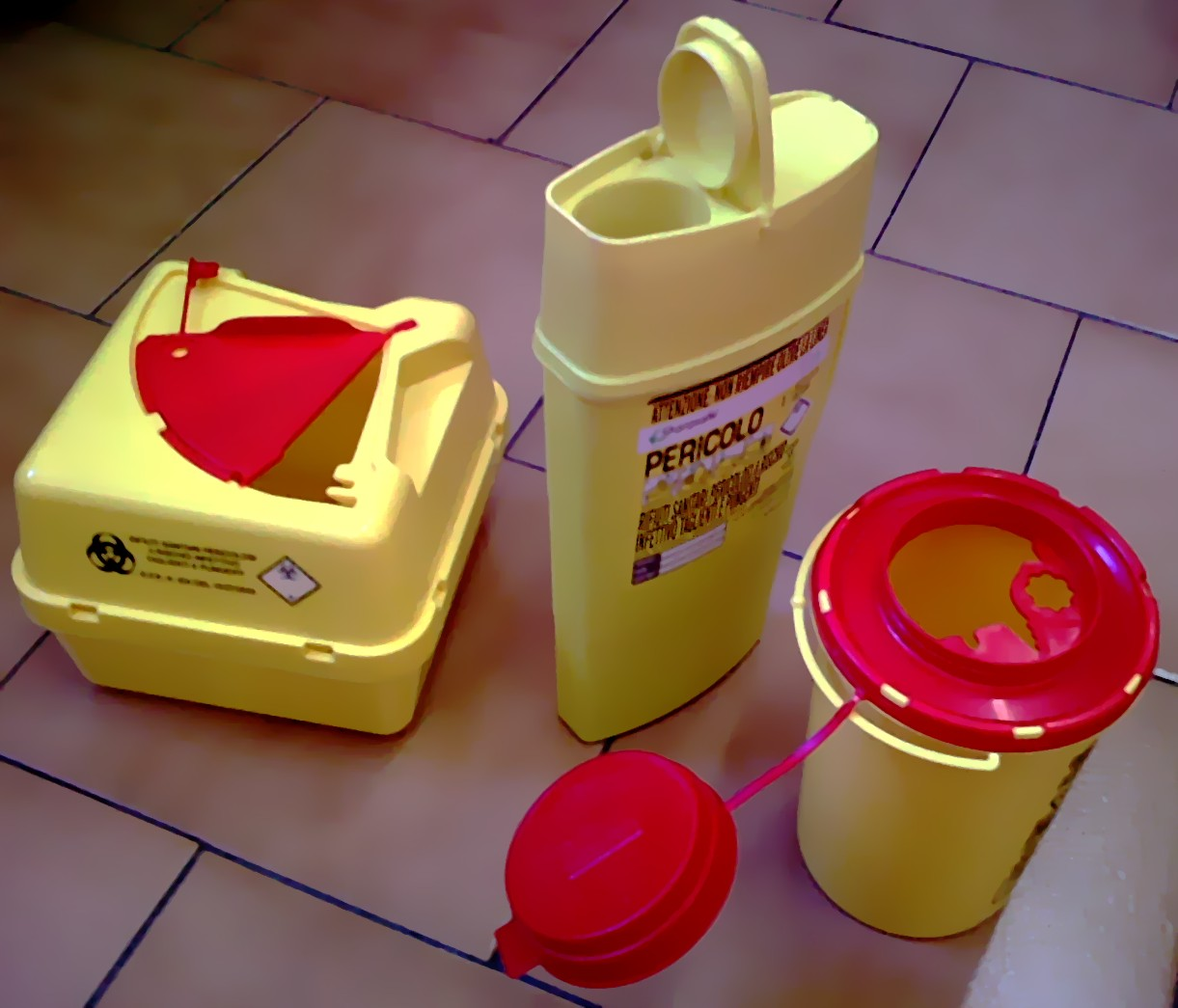 agobox portable model with a left sliding door and locking pin, the center snap a model, a model with the right cap